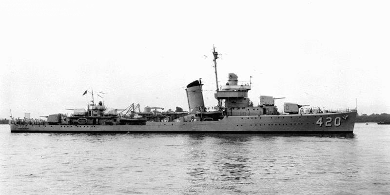 The U.S. Navy destroyer USS Buck (DD-420) underway, circa in 1940-1941.